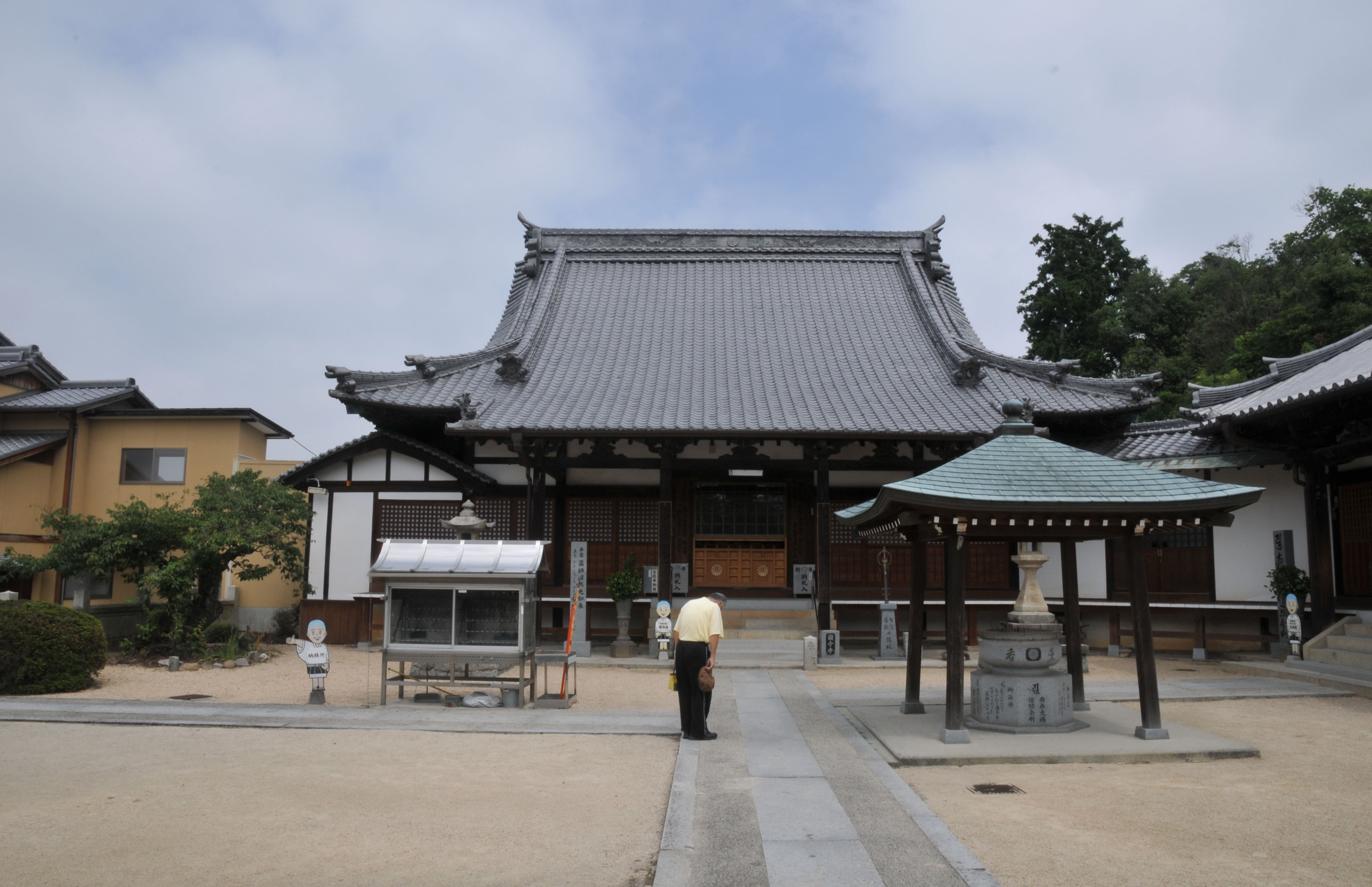 Main temple, Kokubun-ji